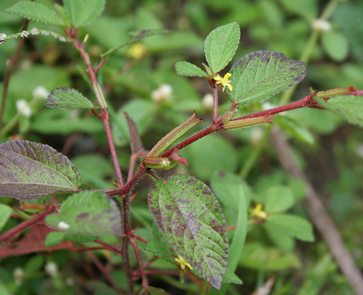 Description corrected as Corchorus aestuans in Hyderabad , India.